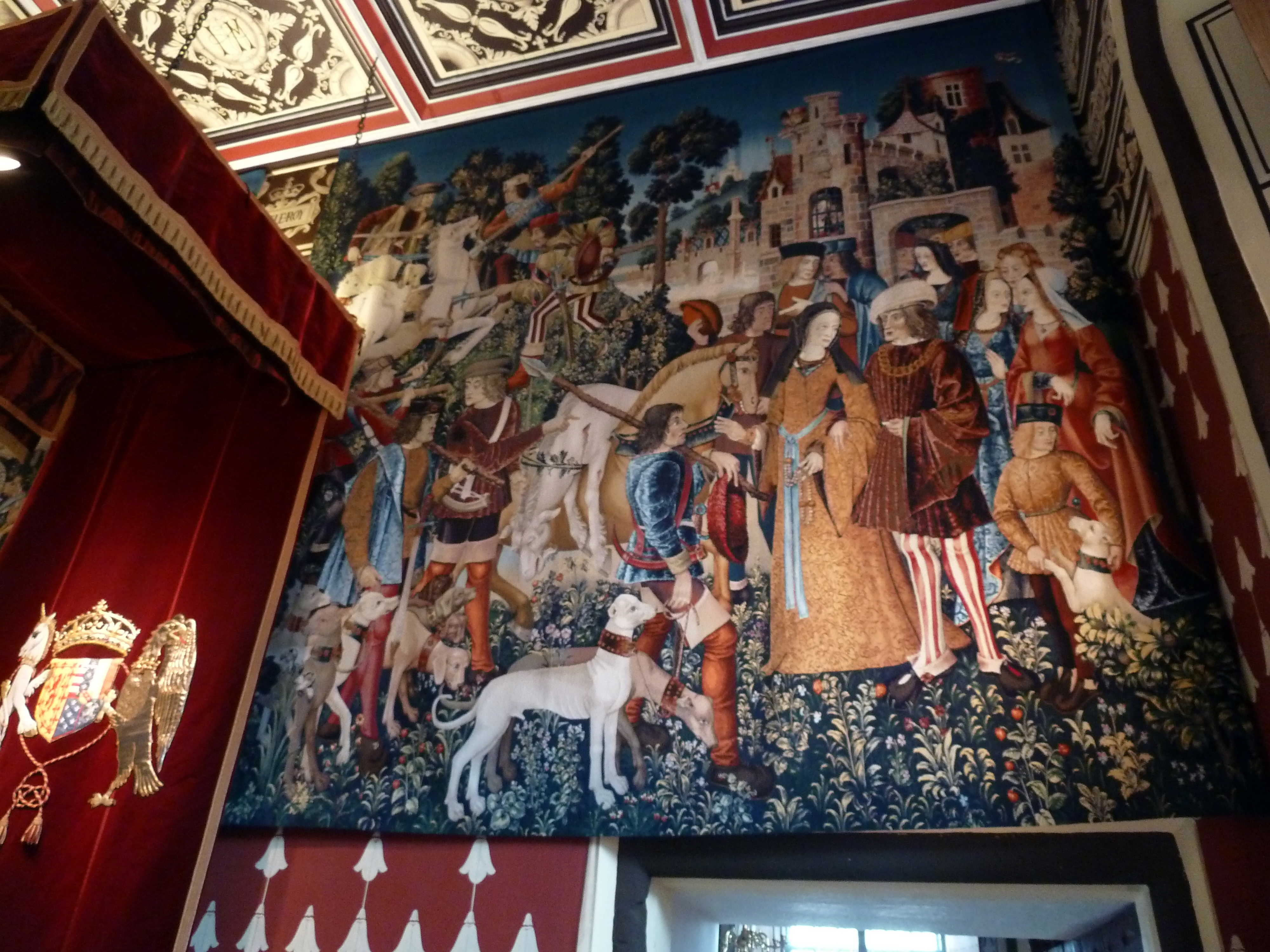 One of the replica Unicorn Tapestries, made at Stirling Castle in a project managed by West Dean College, West Sussex.